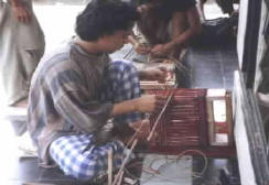 Pandan wicker